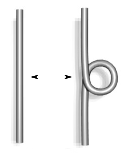 This picture illustrates the Reidemeister move of type I. The move appears as one of fundametal proceidures to deform knots without changing their equivalence class in knot theory (matheamtics). This type I move deals with kinks in the string. The picture shows the strings as 3D objects to illustrate the vertical arrangement.